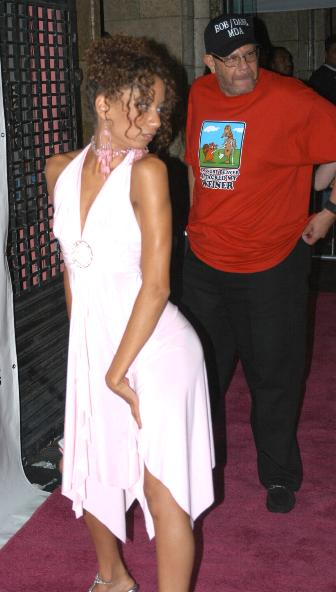 Maya Mason and Bob from Dane Productions.. Taken at the Adam and Eve Tightfit Party on August 31, 2006.